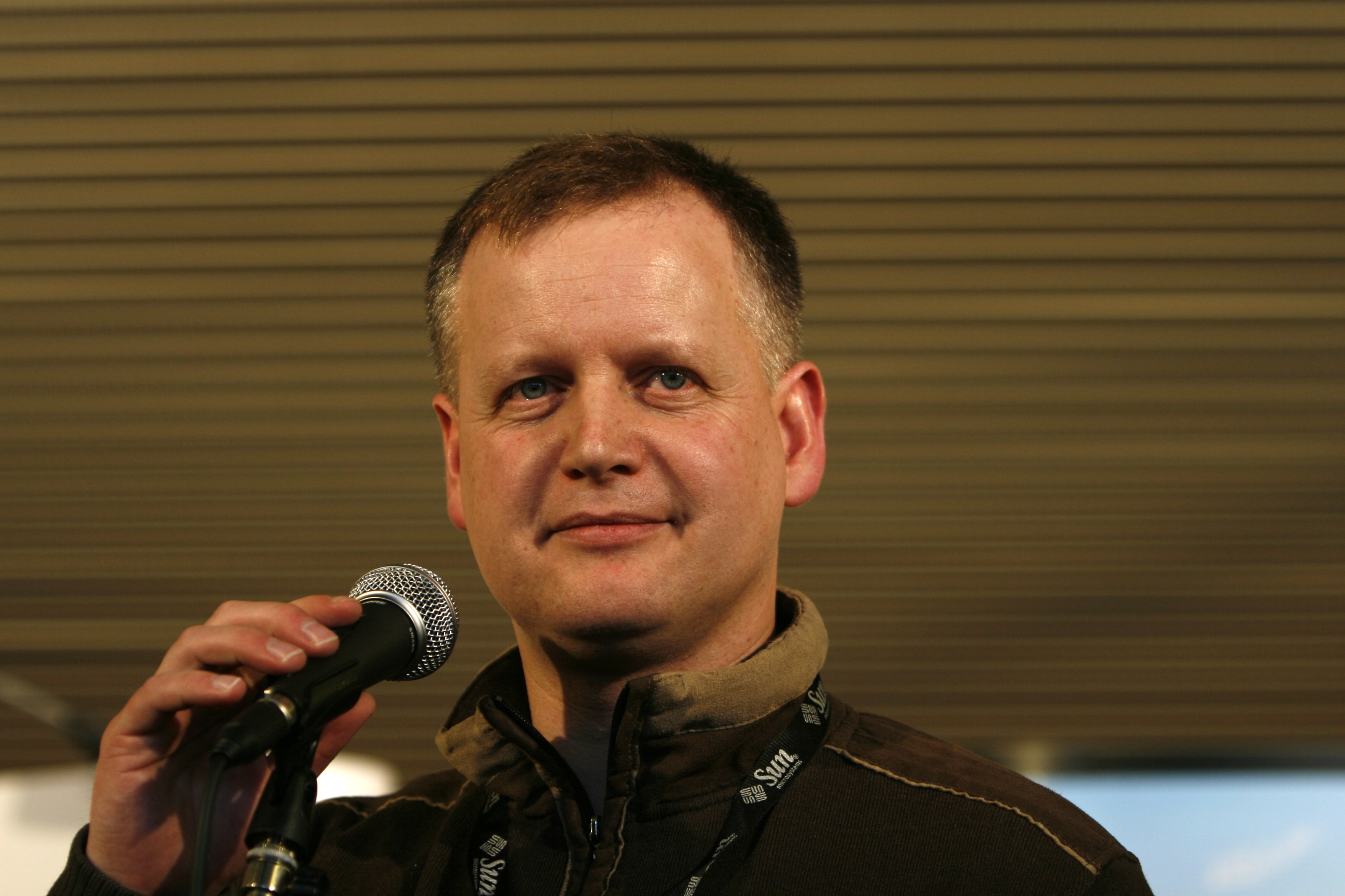 Knut Yrvin, Norwegian free software proponent